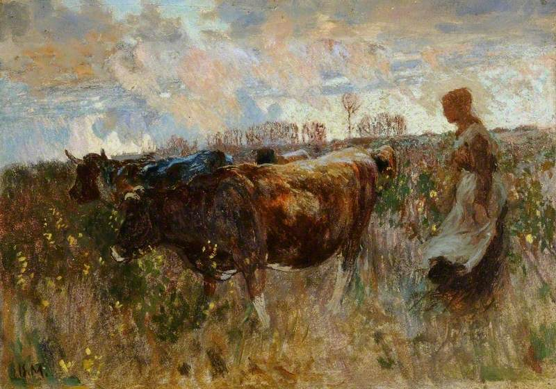 A Pastoral